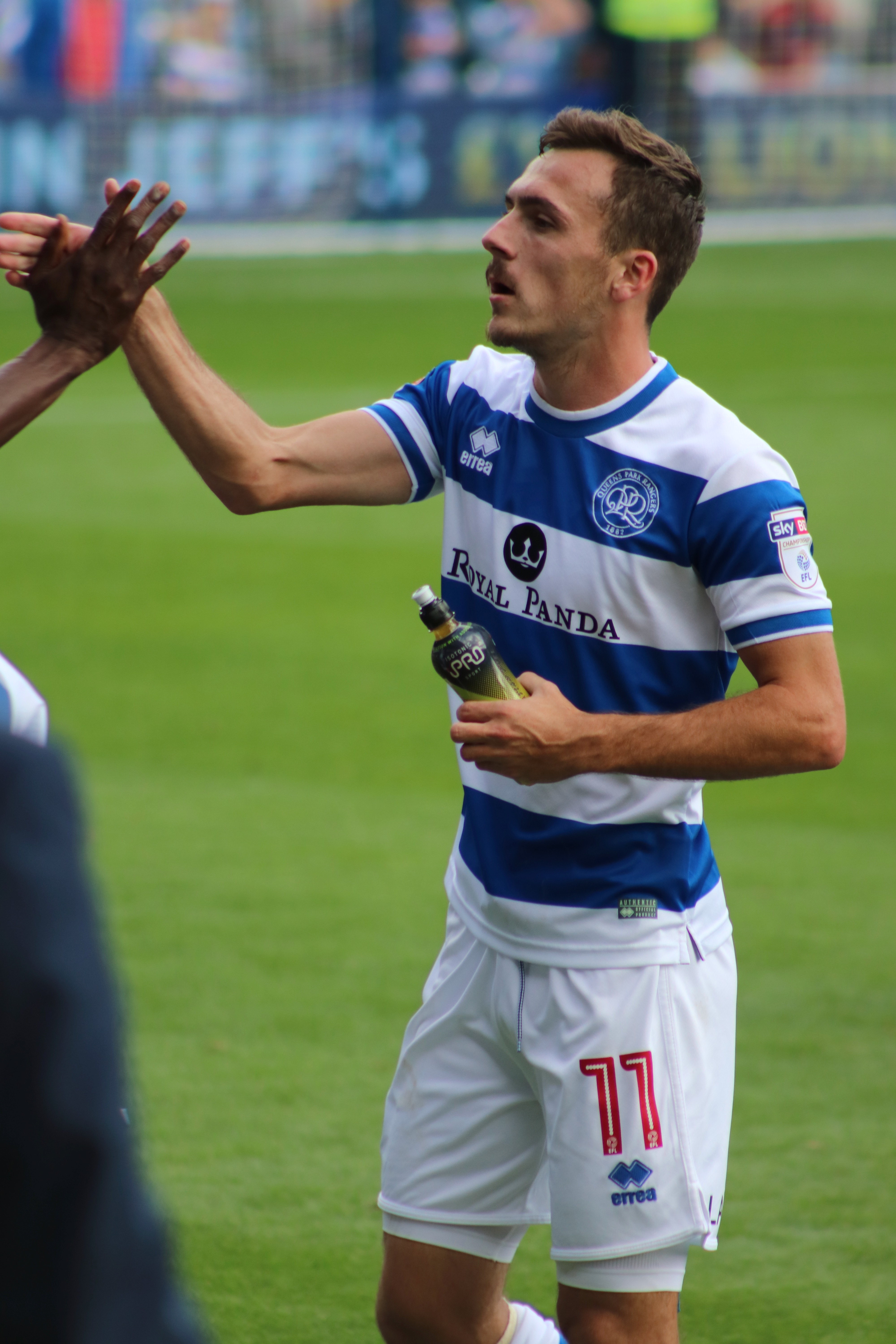 Scowen in action for QPR